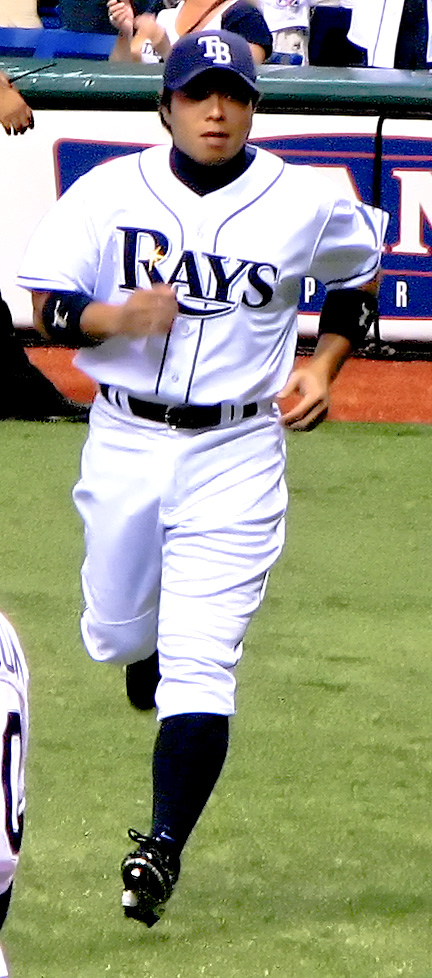 Akinori Iwamura during player introductions, Opening Day 2008, Tropicana Field, St. Petersburg, FL.